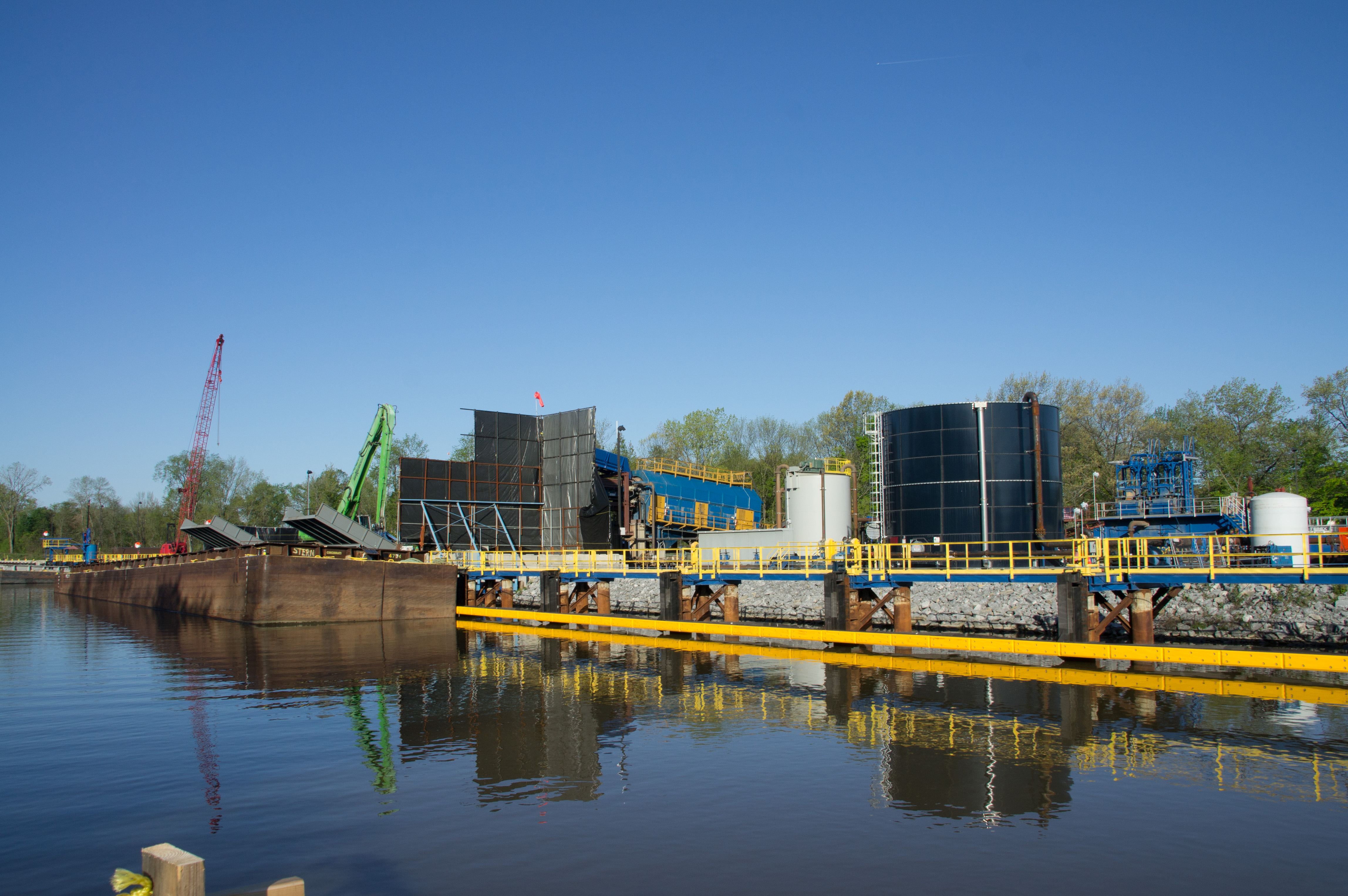 General Electric Co. (GE) dredging PCBs on Hudson River.